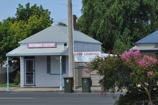 Matchbox Gallery and Bed & Breakfast in Yinnar, Victoria, Australia.